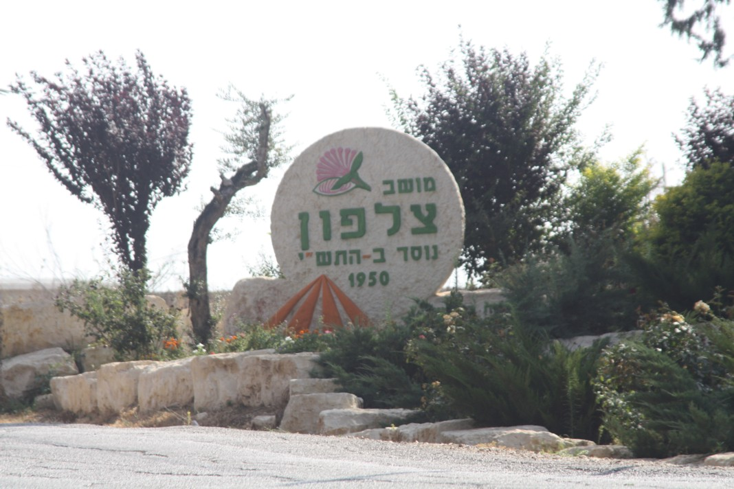 Tzelafon